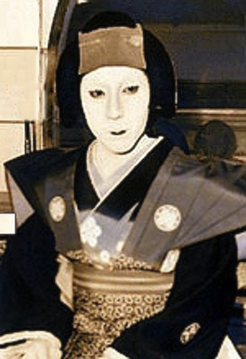 Utaemon Nakamura VI (1917–2001) at his succession as Utaemon VI, April 1951 Tokyo Kabuki-za